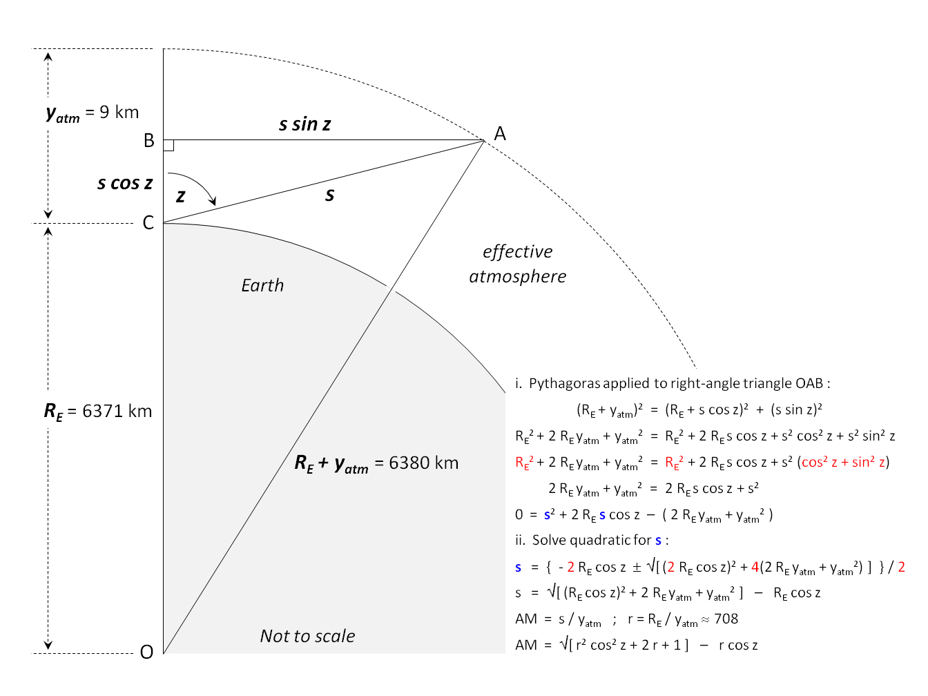 Spherical model of the Earth’s atmosphere: Geometry for computing a diagonal path through the Earth’s atmosphere. Atmospheric effects on optical transmission, at an angle z to the normal, can be modelled as a path of length s, as if the atmosphere is concentrated uniformly in approximately the lower 9 km. This path is known as the Airmass. The Air mass coefficient is defined as the ratio s / y a t m {\displaystyle s/y_{\mathrm {atm} . This model does not apply at non-optical wavelengths where higher layers of the atmosphere affect transmission, for example: the ozone layer at higher ultraviolet frequencies and the ionosphere at lower radio frequencies.